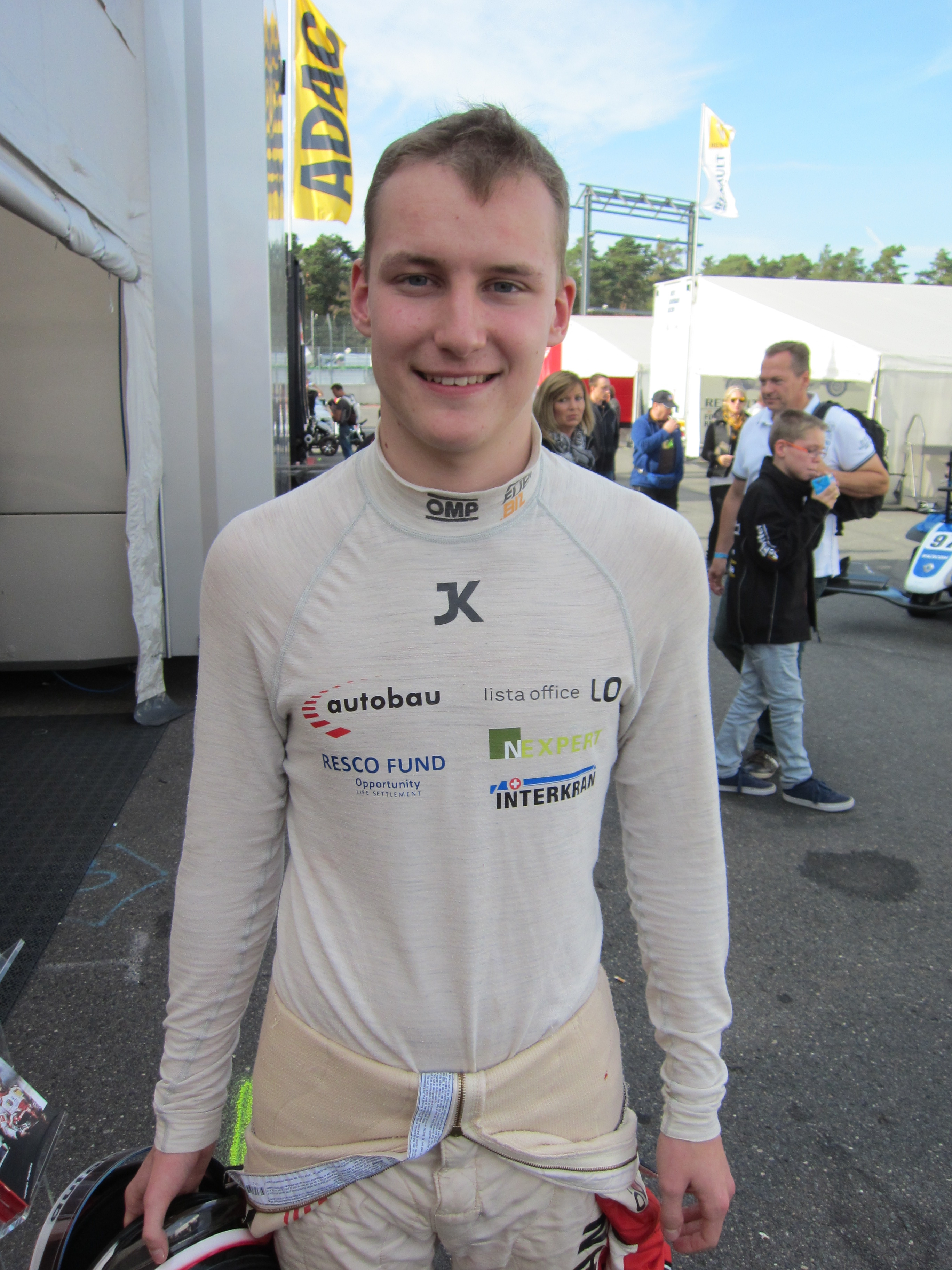 Kevin Jörg: the photo was taken during 2015's ADAC GT Masters race weekend at Hockenheim